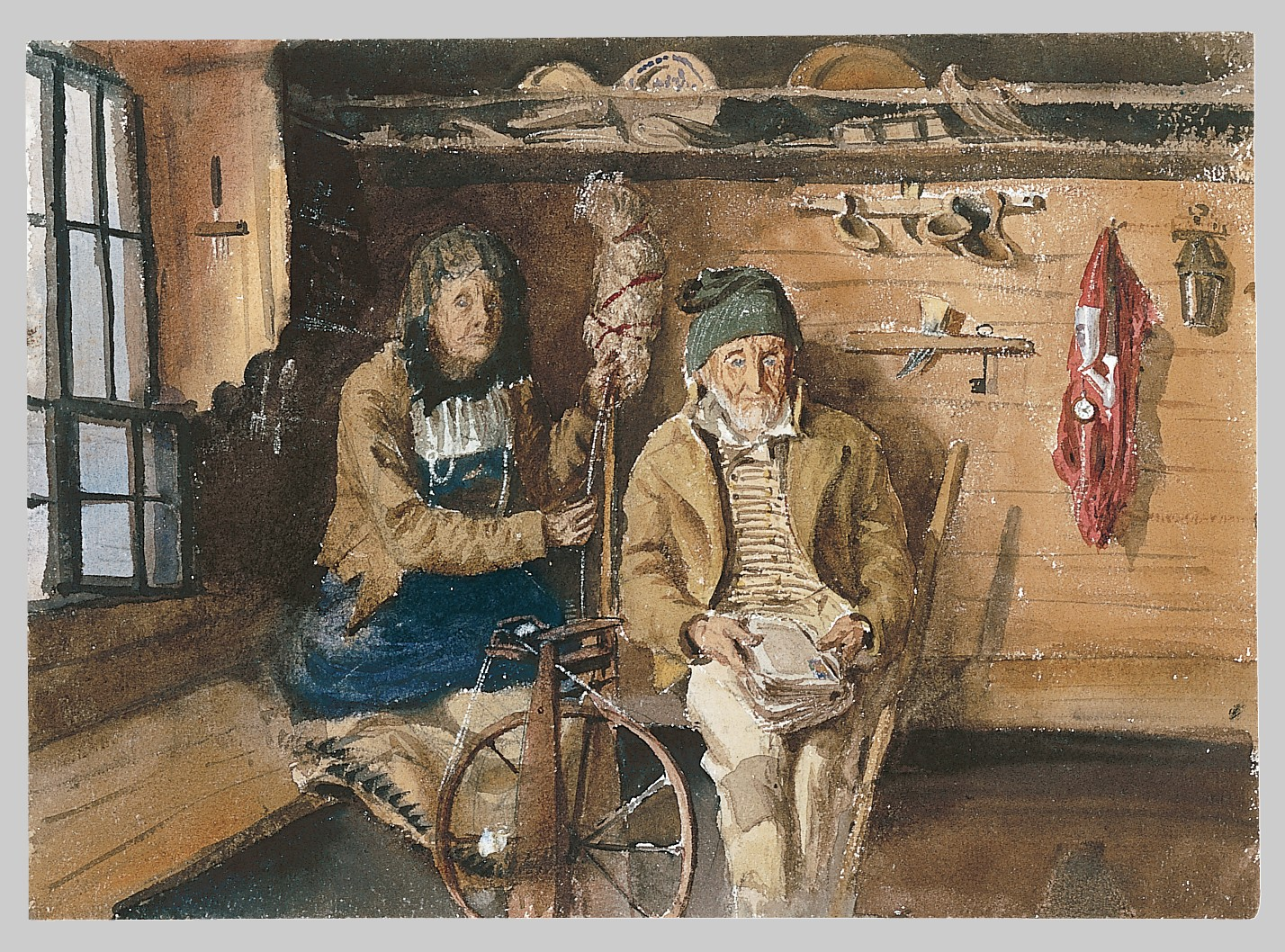 Watercolor; Drawings